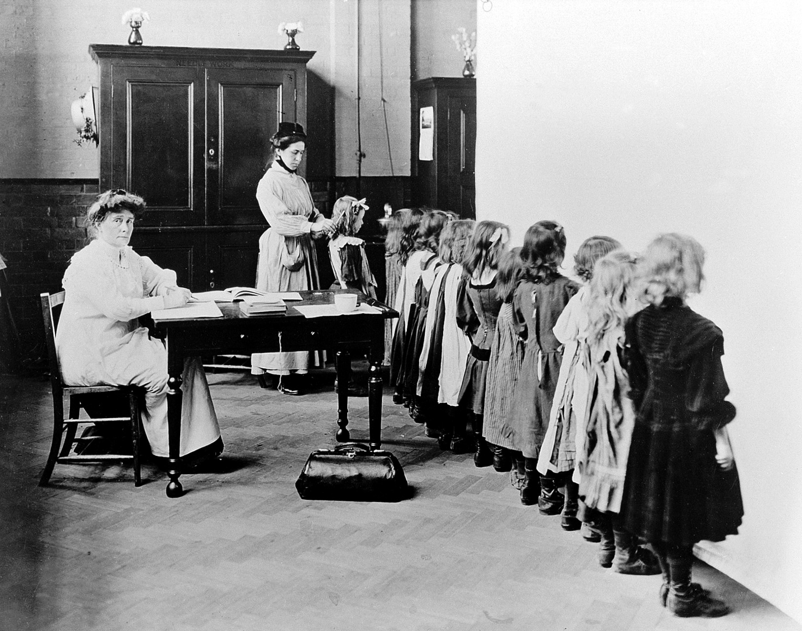 Health Visitors' Association. Archives & Manuscripts Keywords: cmac: sa/hva/e.1/11; health visitors' association